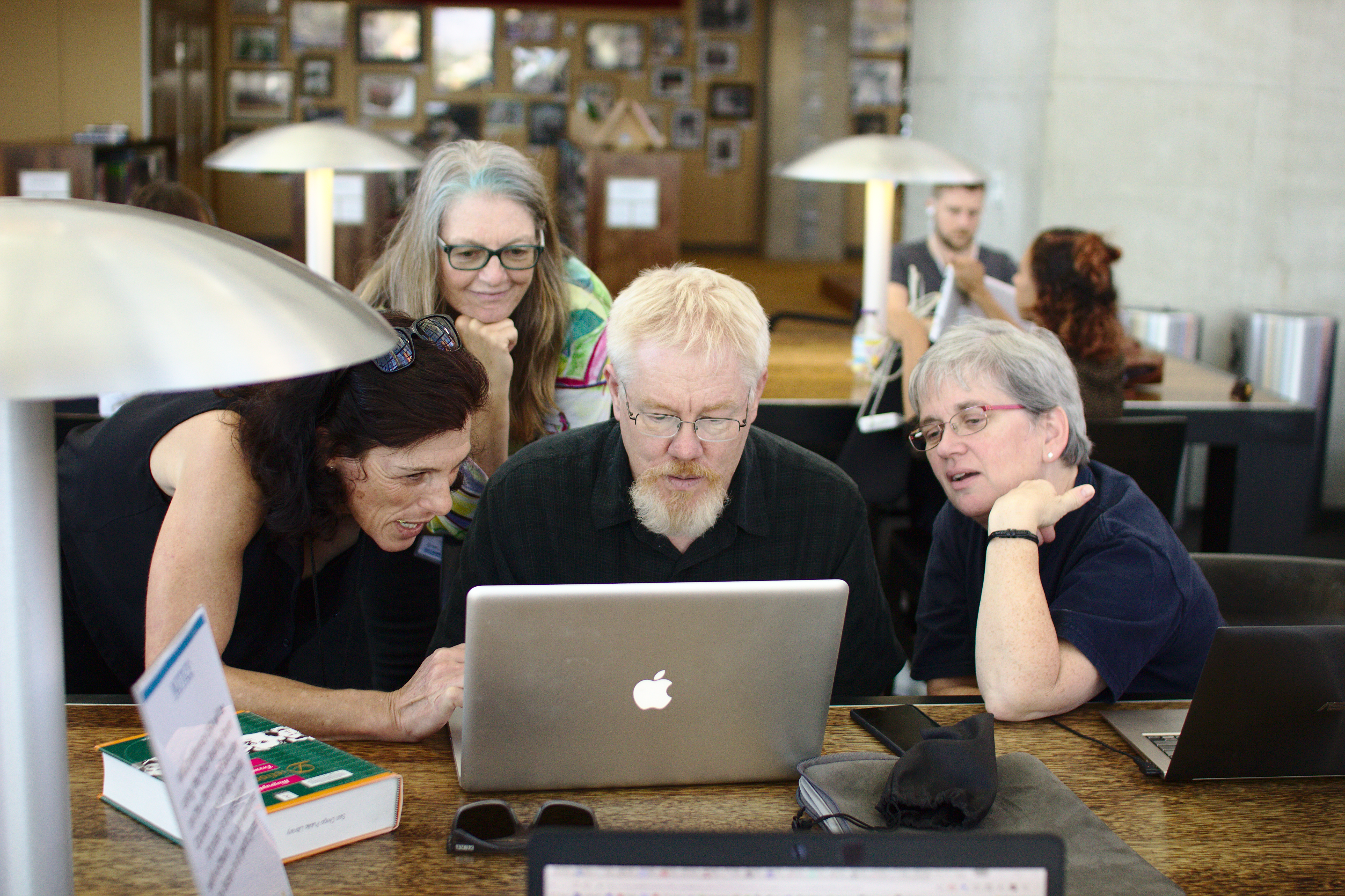 Participants in the Kevin Gorman Memorial Edit-a-thon for Women Philosophers